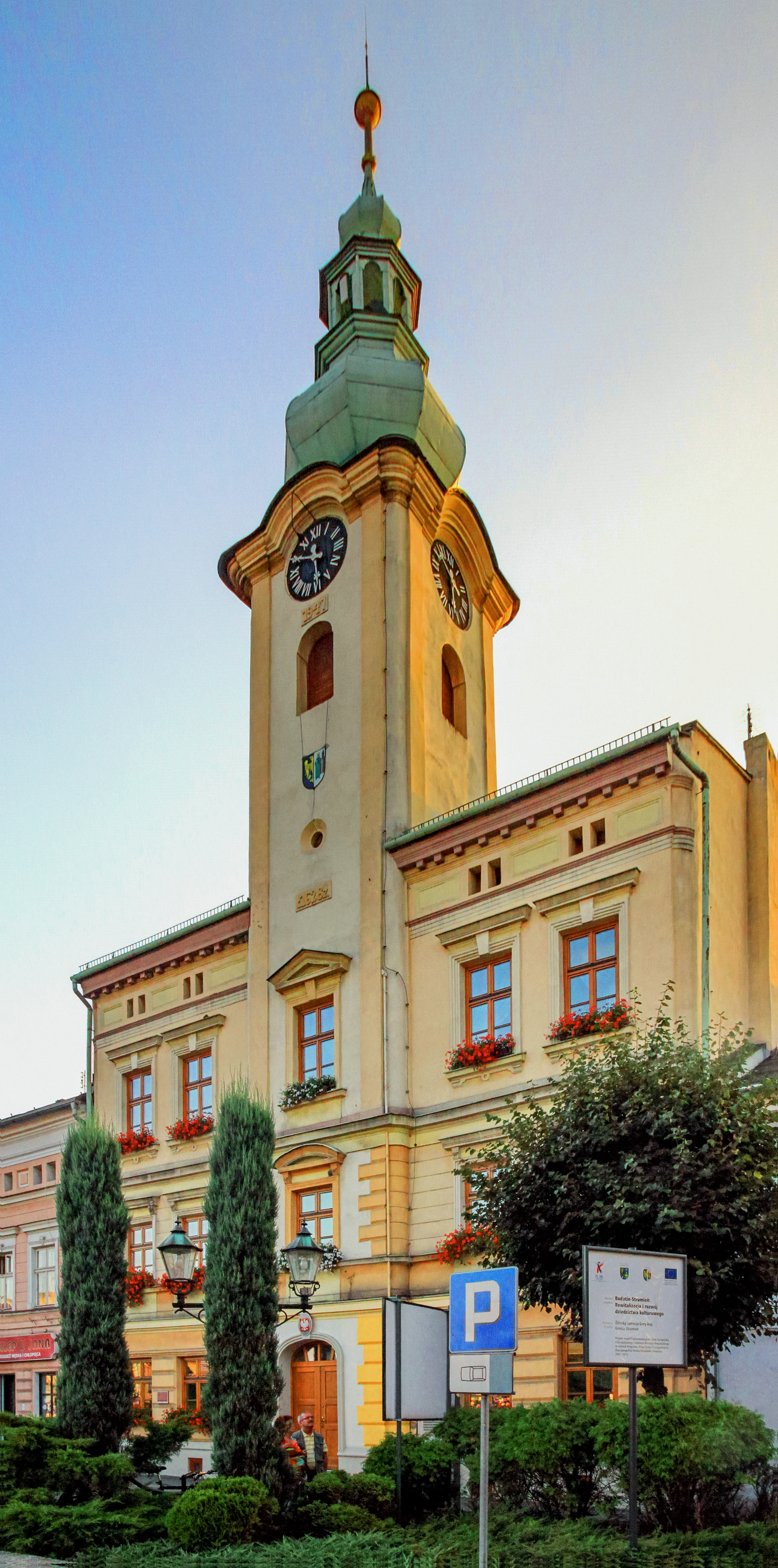 Town hall. Strumień, Silesian Voivodeship, Poland.